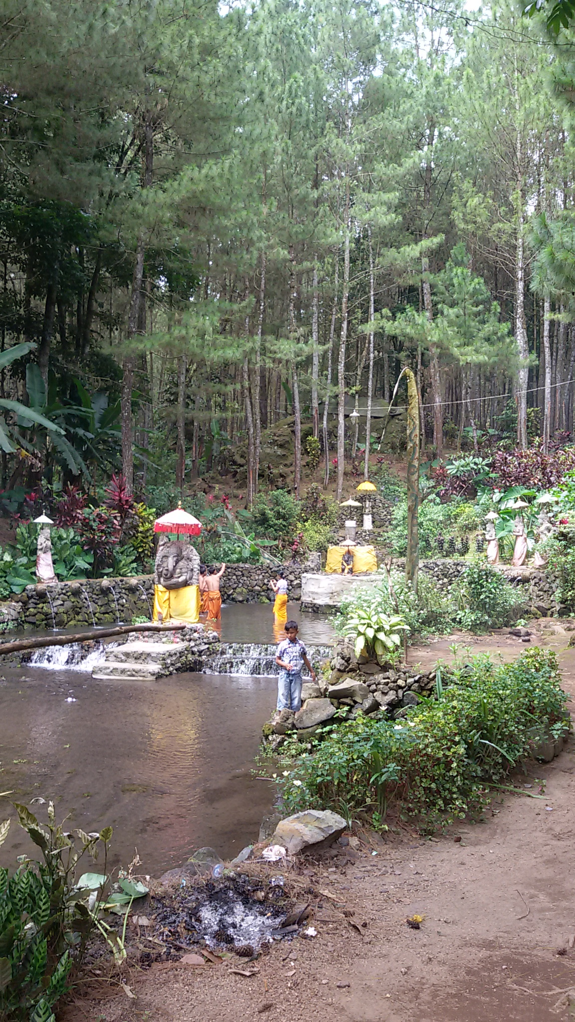 Holy fountain at Beji Ananthaboga along with altar of Ganesha